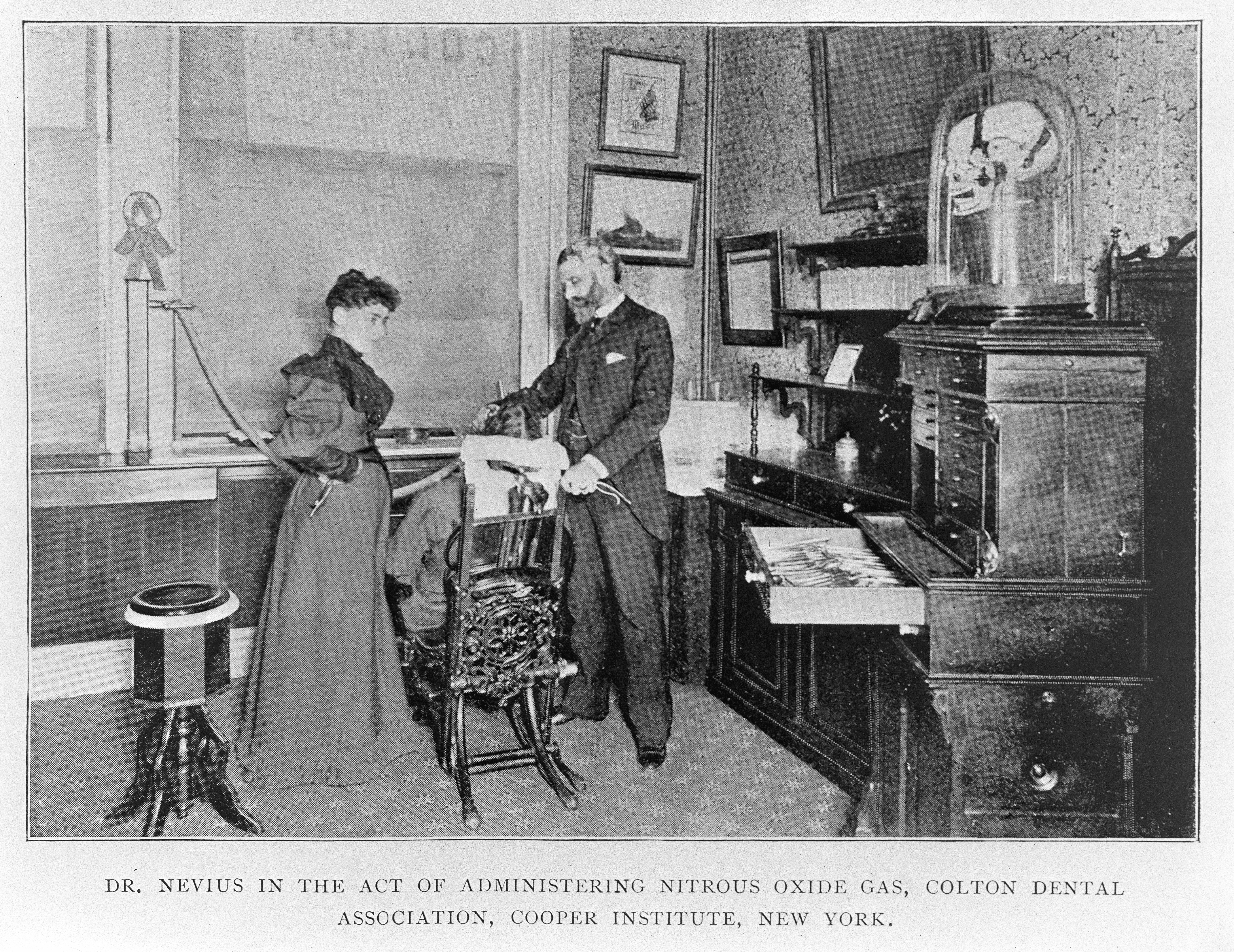 Administering nitrous oxide gas. General Collections Keywords: anaesthetics: 19th century